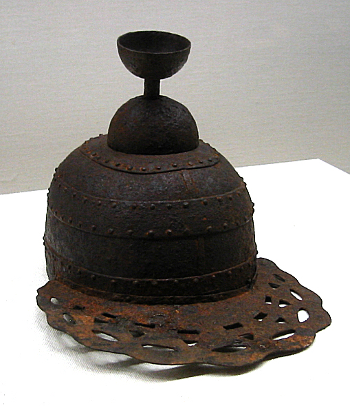 Kofun helmet. Kofun period Japan, 5th century